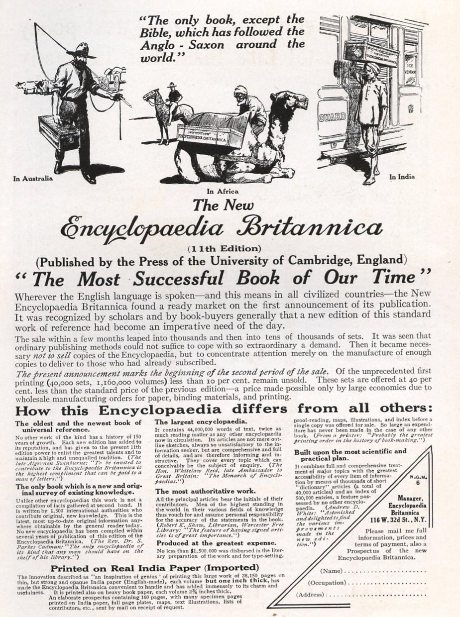 Advertisement for Encyclopedia Brittanica, 1913